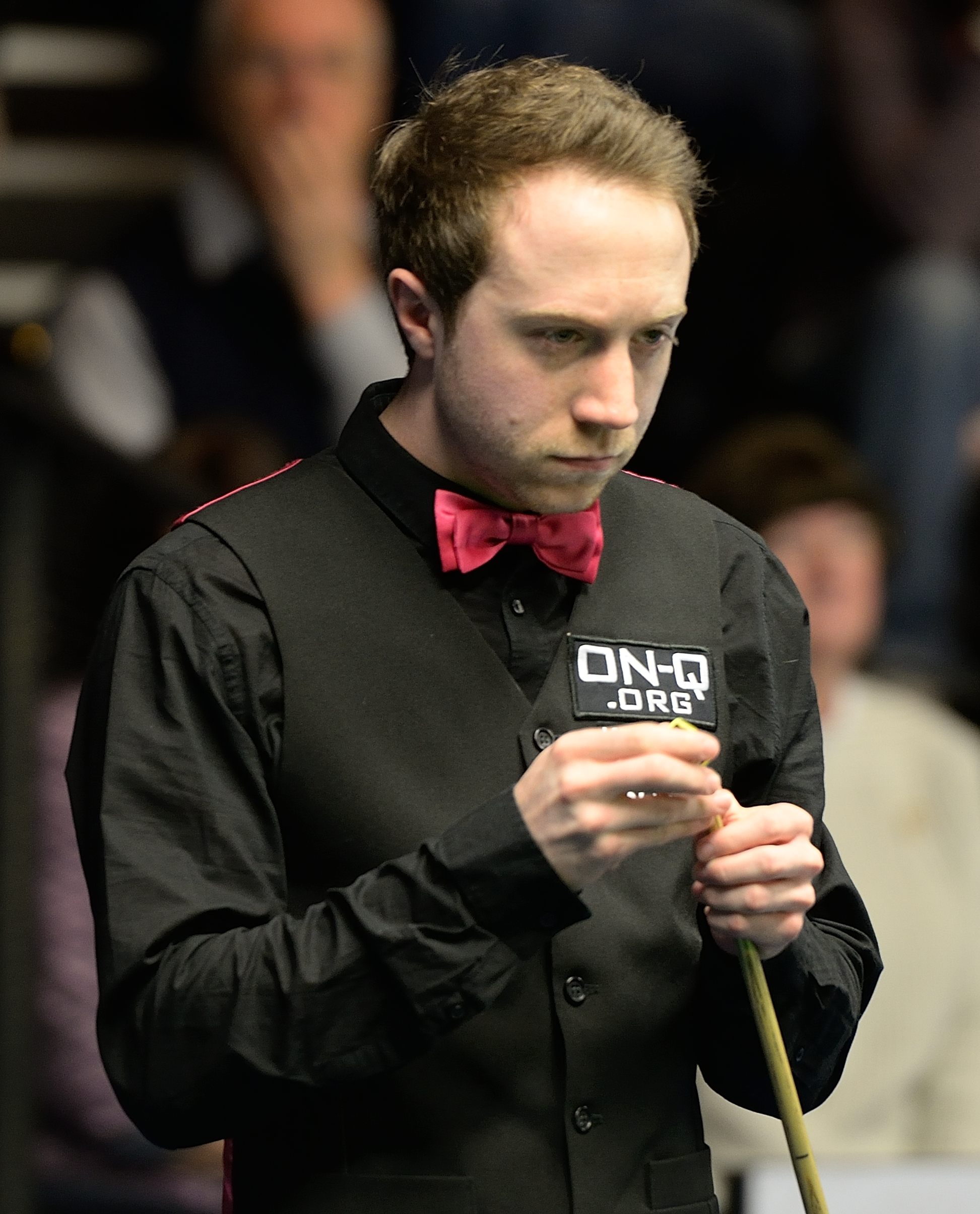 Picture taken in Berlin during the Snooker German Masters in 2015. Michael Wasley.